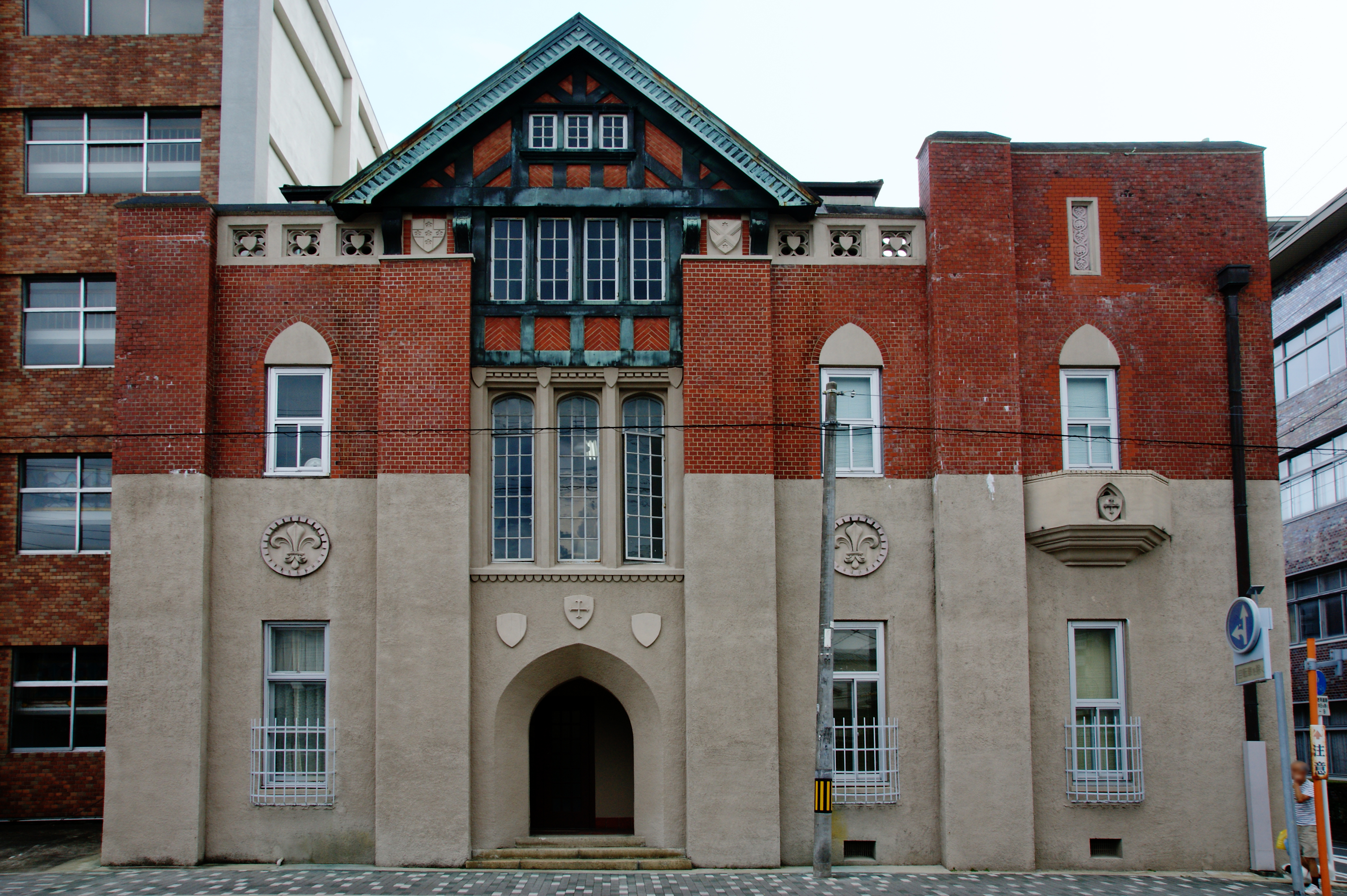 St. Agnes' School Showa-kan in Kyoto, Kyoto prefecture, Japan